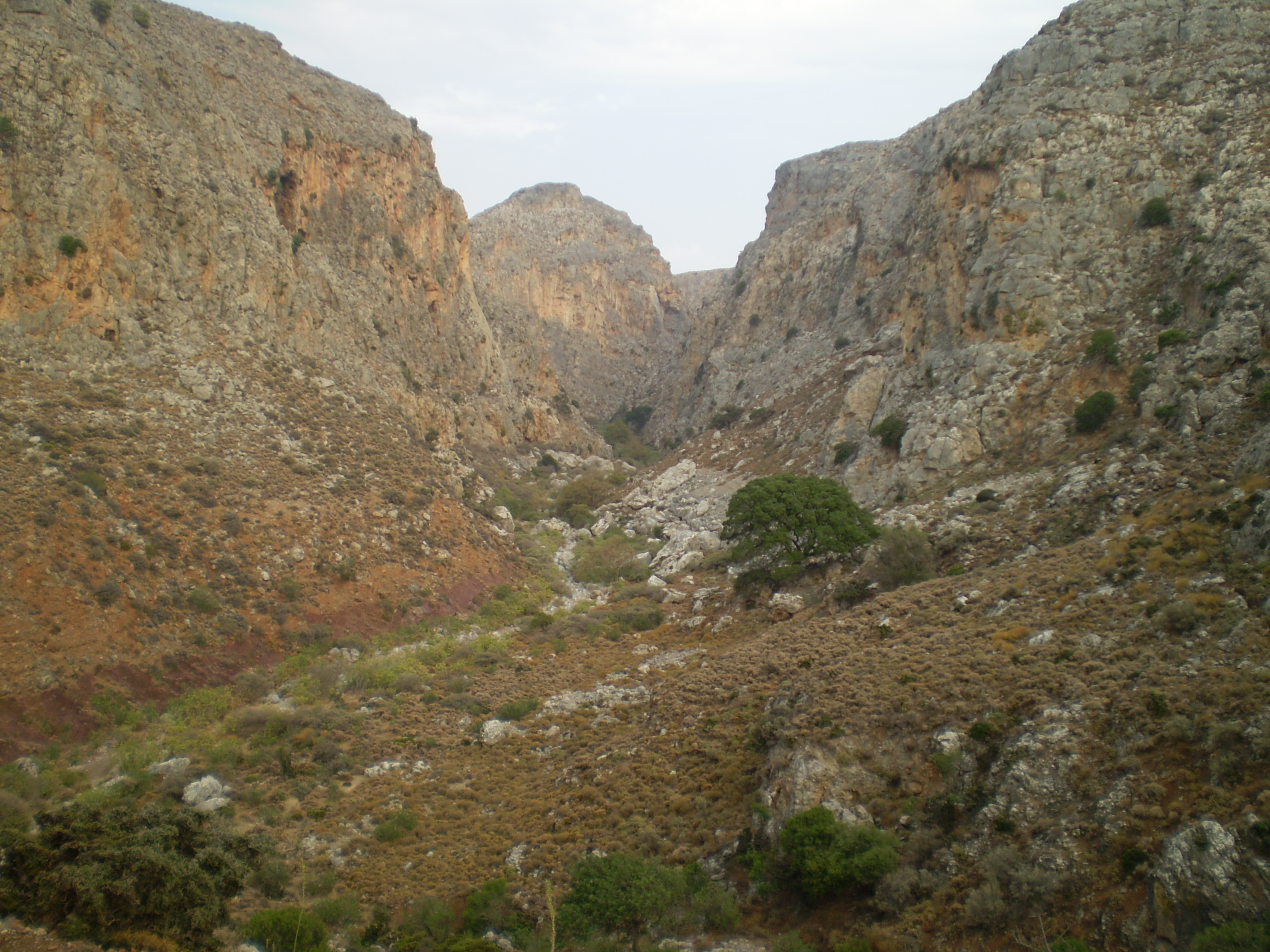 Death Valley, East Coast, Crete